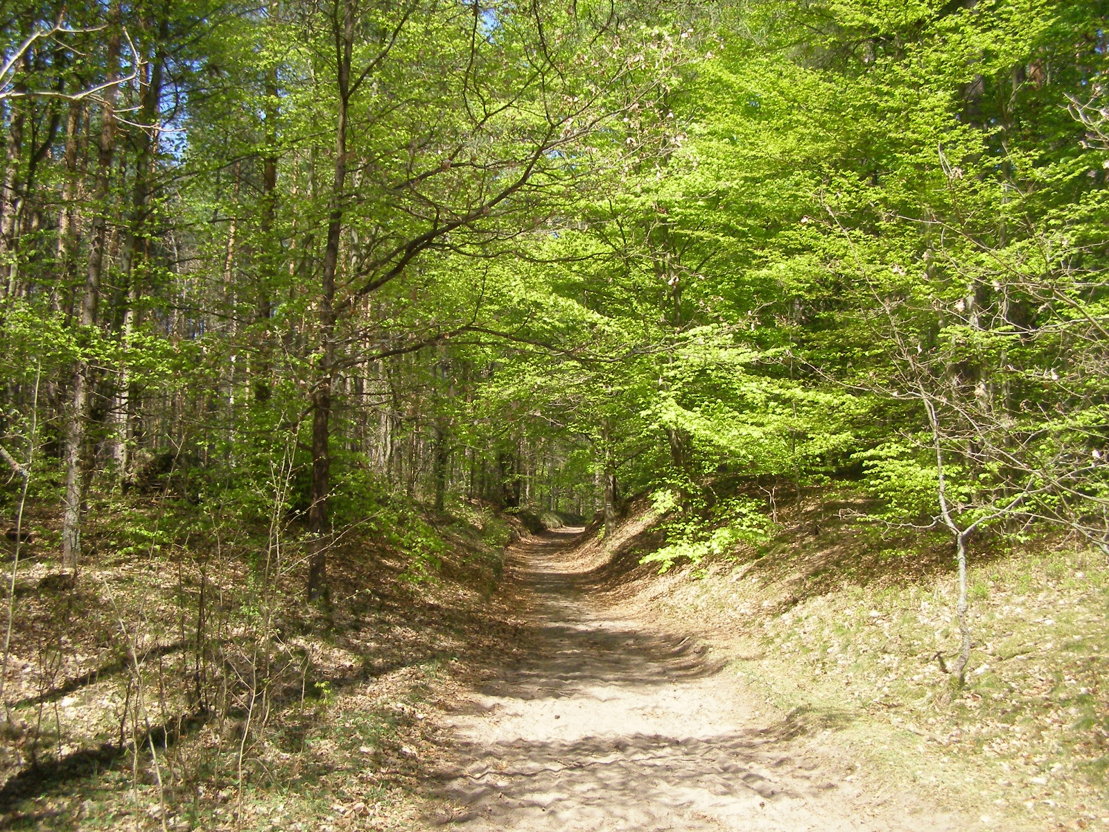 Gdańsk - Sulmin Forest